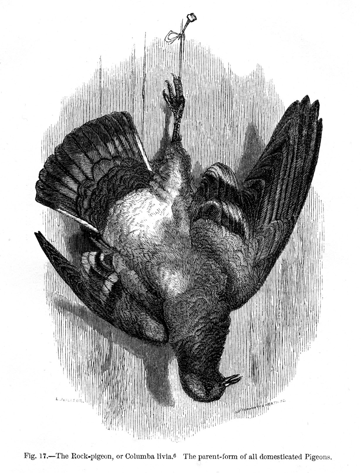 Figure 17 - "The Rock-Pigeon or Columbia livia" from Charles Darwin's book Variation of Animals and Plants Under Domestication published in 1868.